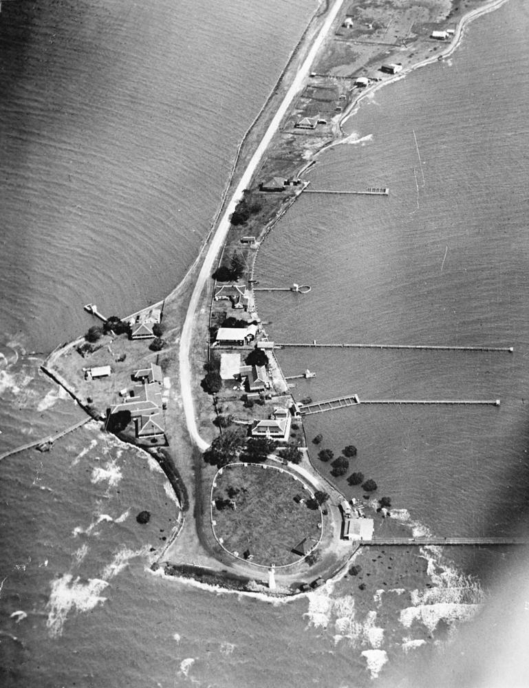 Aerial view of Cleveland, ca. 1920.